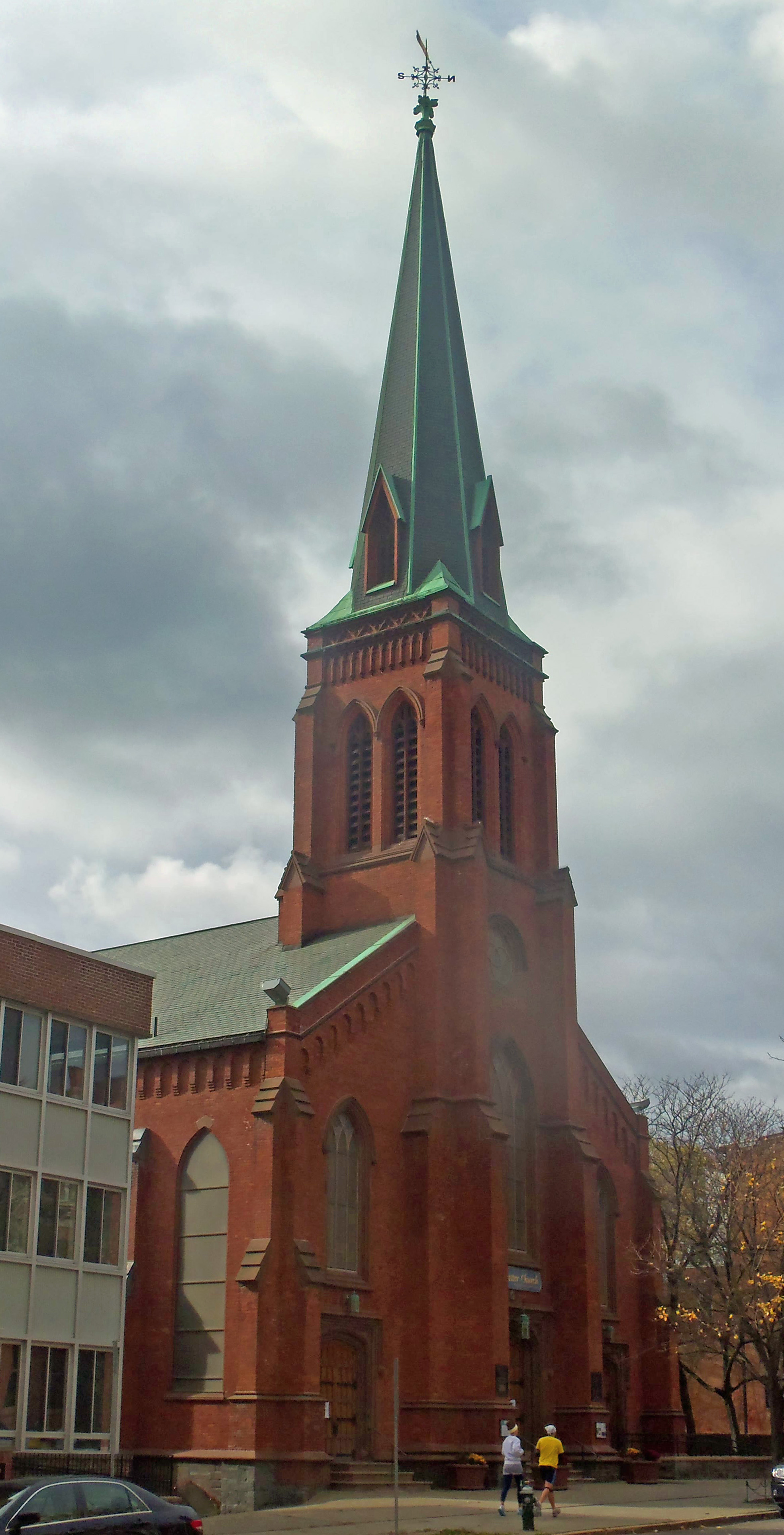 The Westminster Baptist Church, a contributing property to the Center Square/Hudson–Park Historic District in Albany, NY, USA